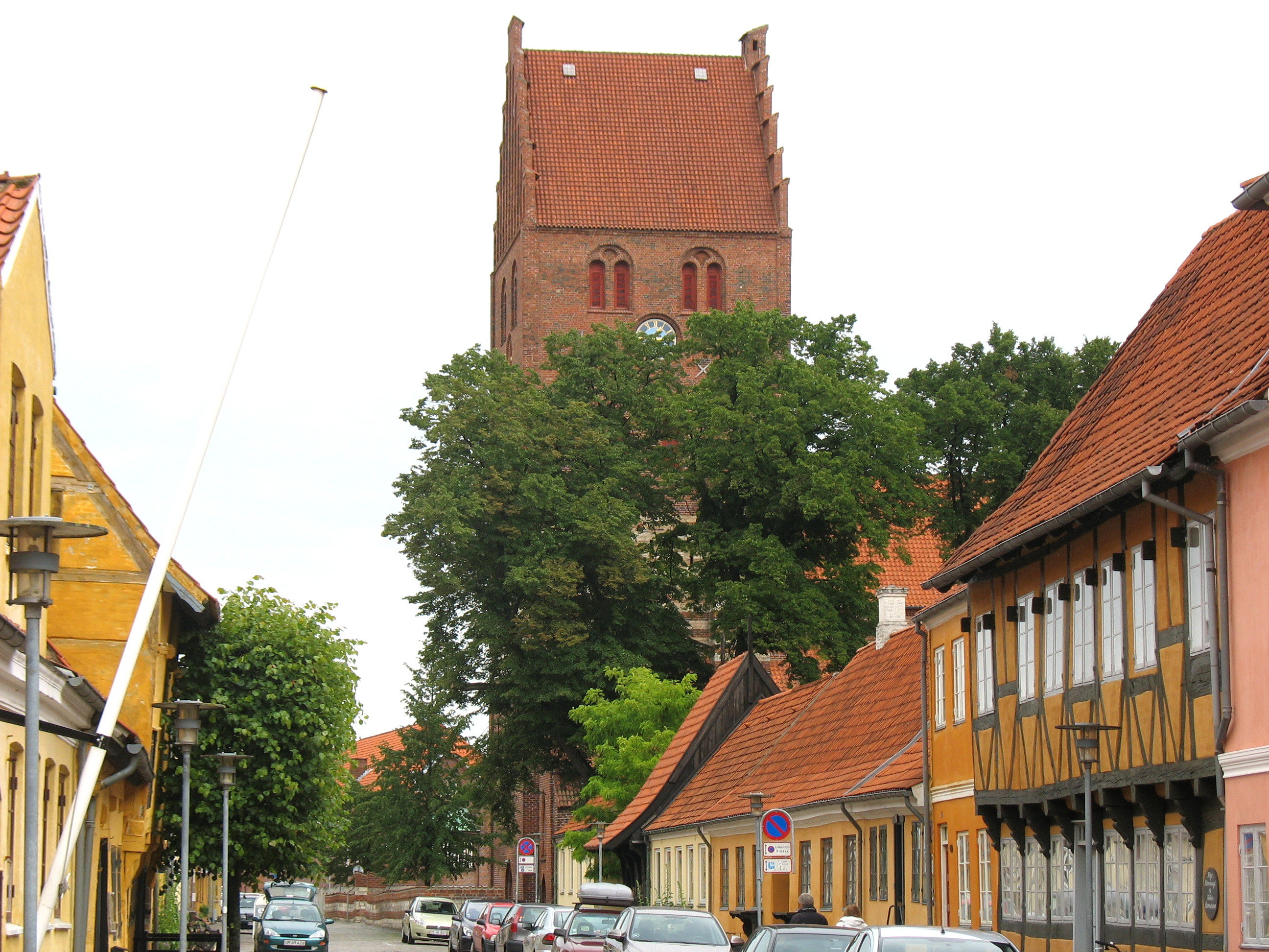 The old street "Kirkestræde" with a view to the church "Køge Kirke". The town "Køge" is located in Middle Zealand, east Denmark.